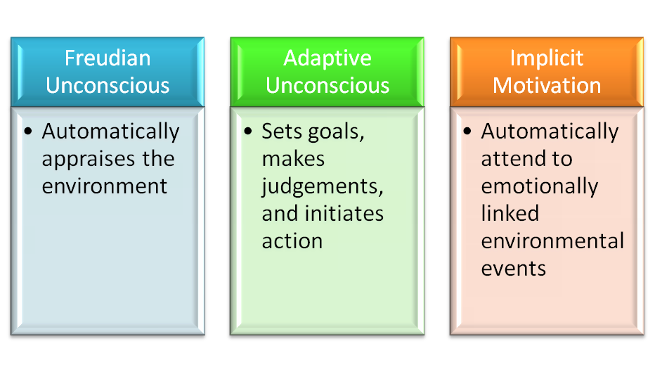 Unconscious Motivation